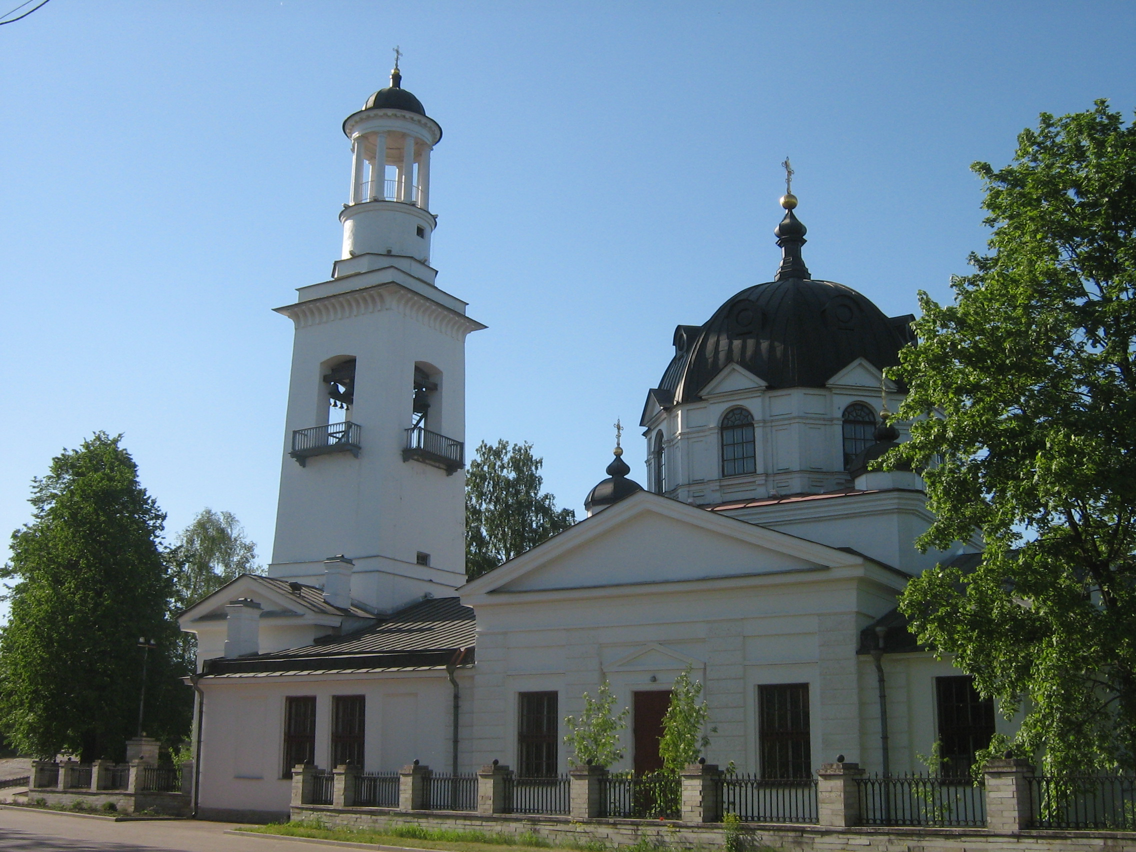 Ust-Izhora (Russia), St. Alexander Nevsky church.